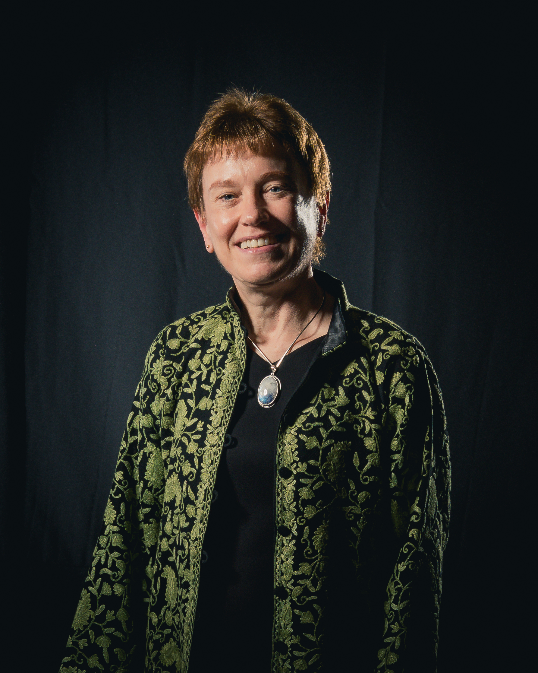 Portrait photoshoot at Worldcon 75, Helsinki, before the Hugo Awards: Carolyn Ives Gilman